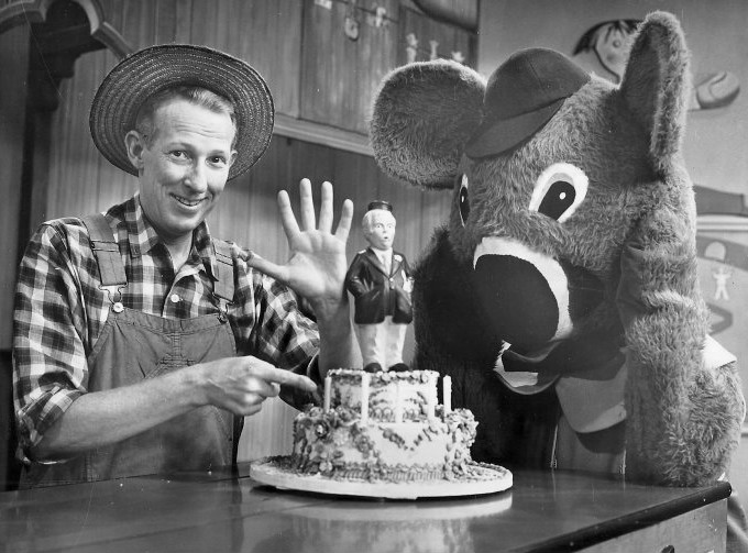 Photo of Hugh Brannum (Mr. Green Jeans) and Cosmo Allegretti (Dancing Bear) from the television program Captain Kangaroo. Brannum is indicating that the show is celebrating its fifth year on the air.